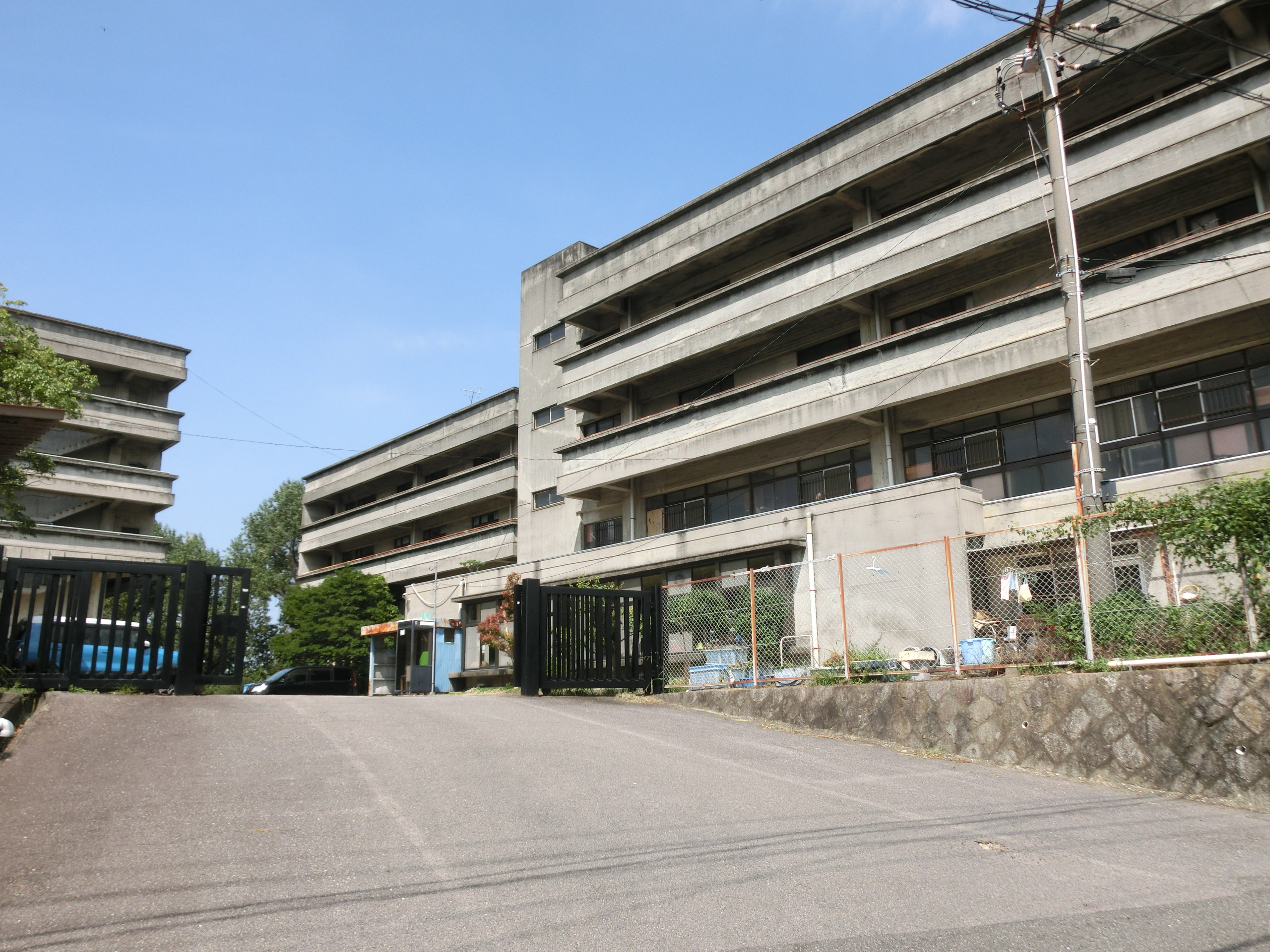 Aichi Korean Junior and Senior High School